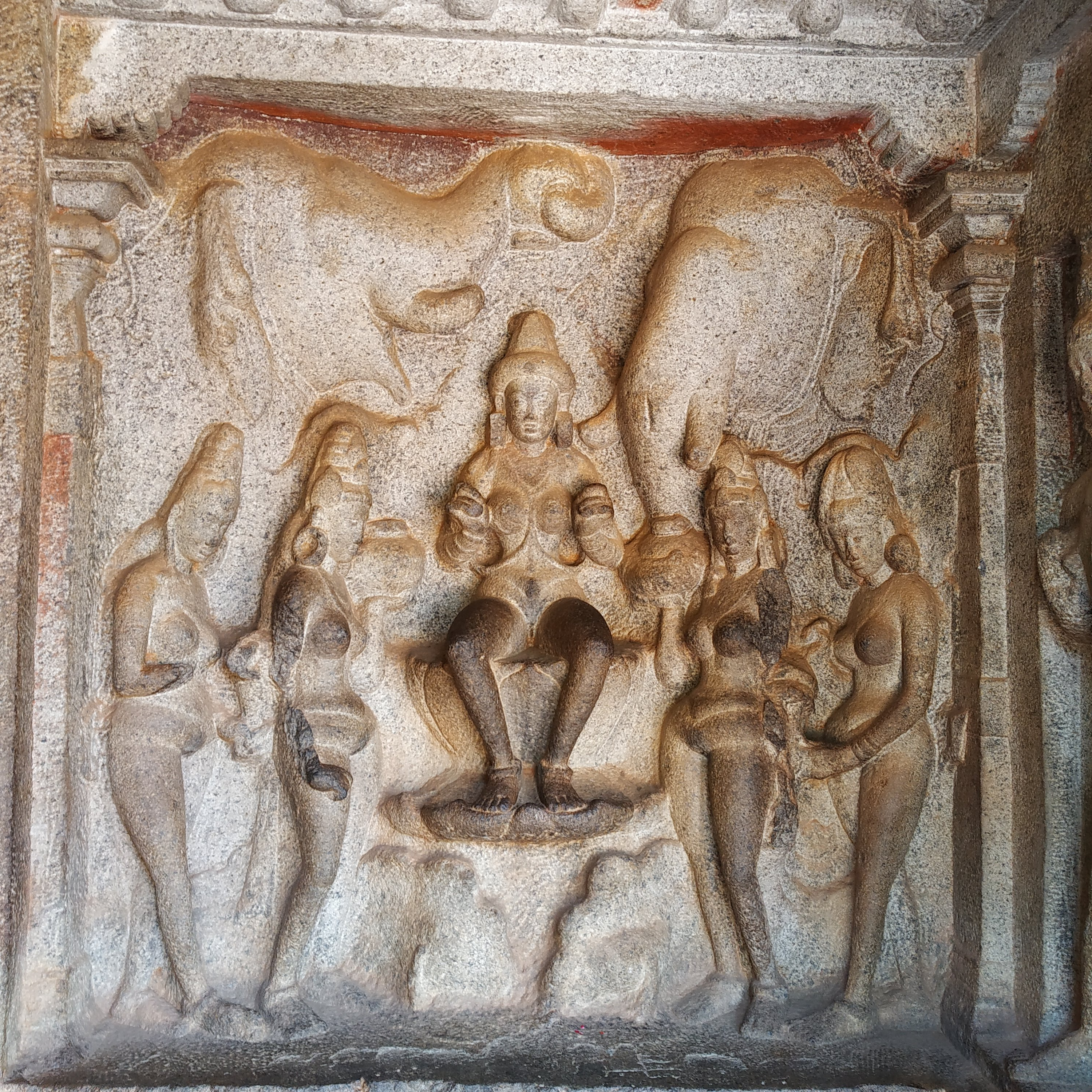 A Pallava period rock cut temple with sculptures of Lord Varaha and Lord Vamana.